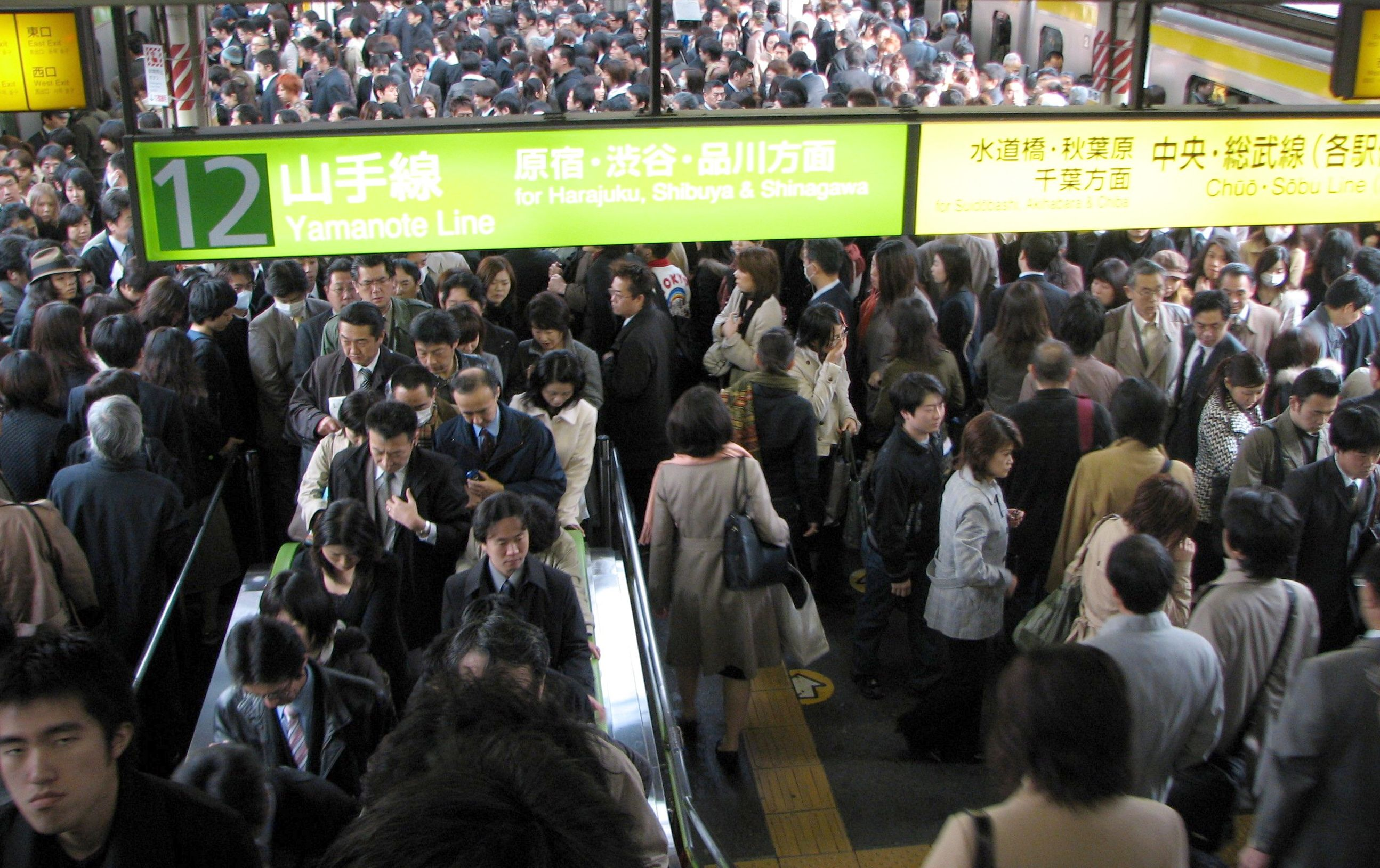 Rush hour at Shinjuku station, Yamanote line and Chūō-Sōbu Line.